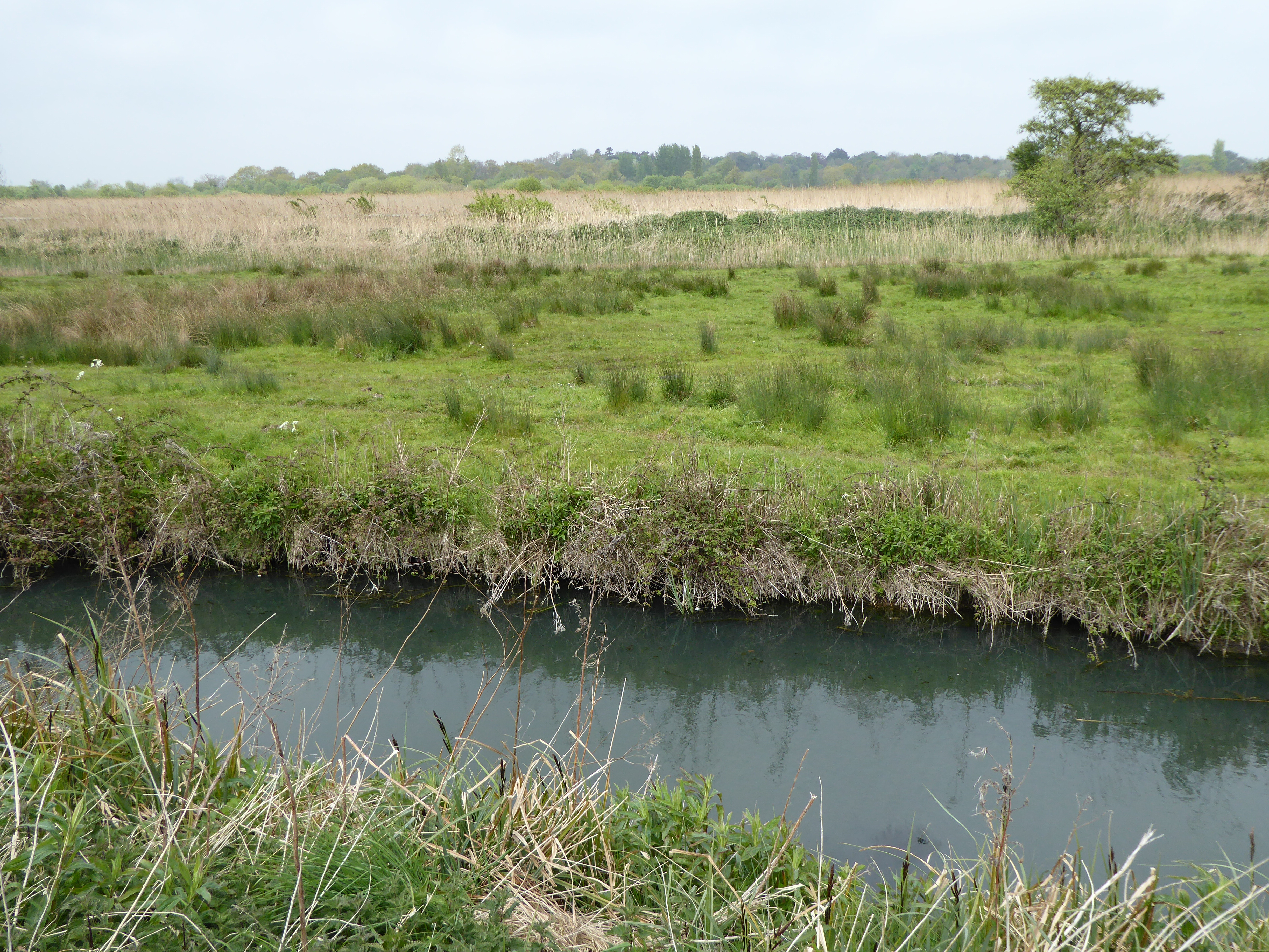 Carlton Marshes is part of Sprat's Water and Marshes, Carlton Colville, a biological Site of Special Scientifc Interest on the western outskirts of Lowestoft in Suffolk, Carlton Marshes is also part of the Carton and Oulton Marshes nature reserve, which is managed by the Suffolk Wildlife Trust.